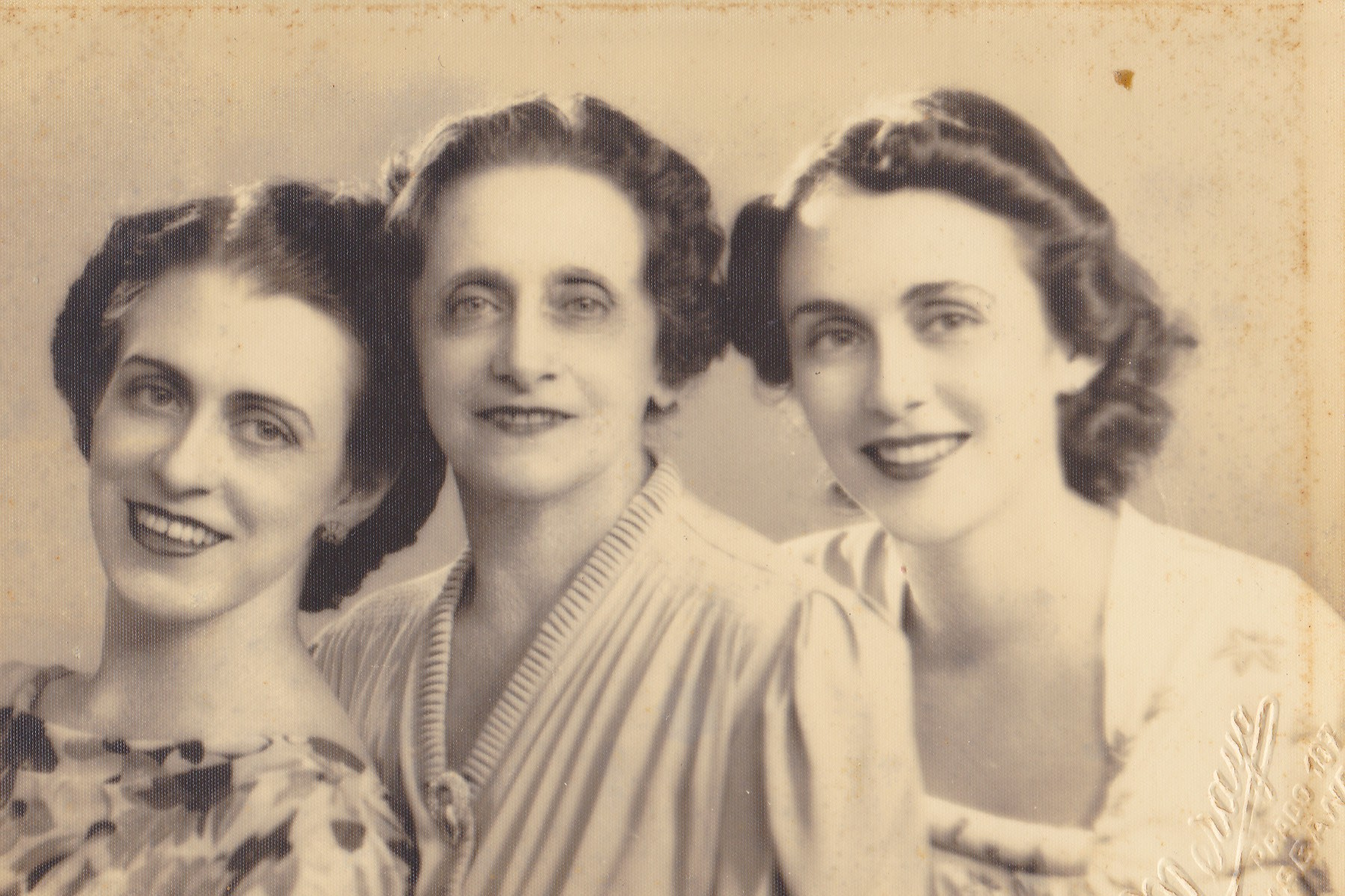 From left to right: Matilde Ponce de León y Pérez del Castillo, Sarah Pérez del Castillo y Simoni and Celia Ponce de León y Pérez del Castillo